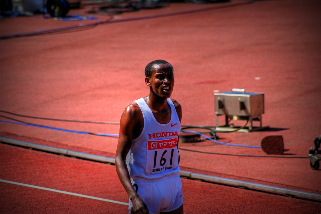 A Kenyan runner who got 4th place of 3000 m SC in Beijing Olympic.